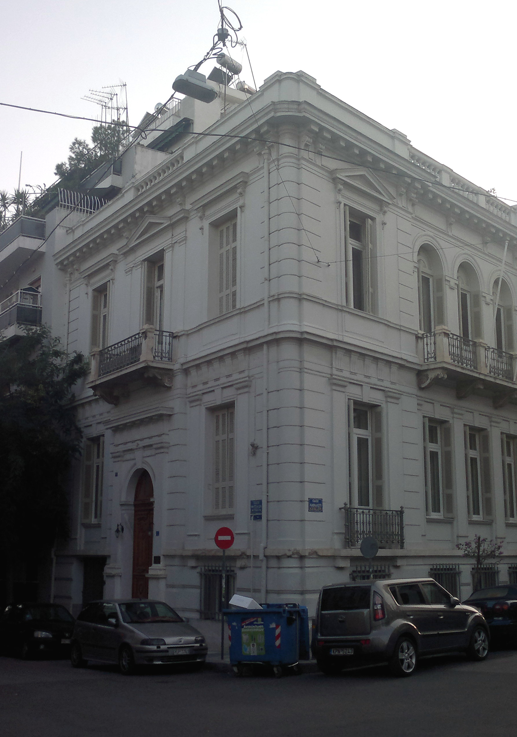 The Swedish Institute at Athens.